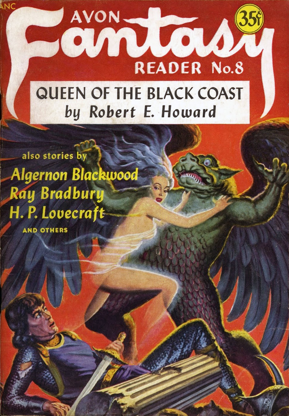 Cover of the pulp magazine Avon Fantasy Reader (November 23, 1948, no. 8) featuring Queen of the Black Coast by Robert E. Howard. This issue was registered with the US Copyright Office and given registration number AA107687.[1]